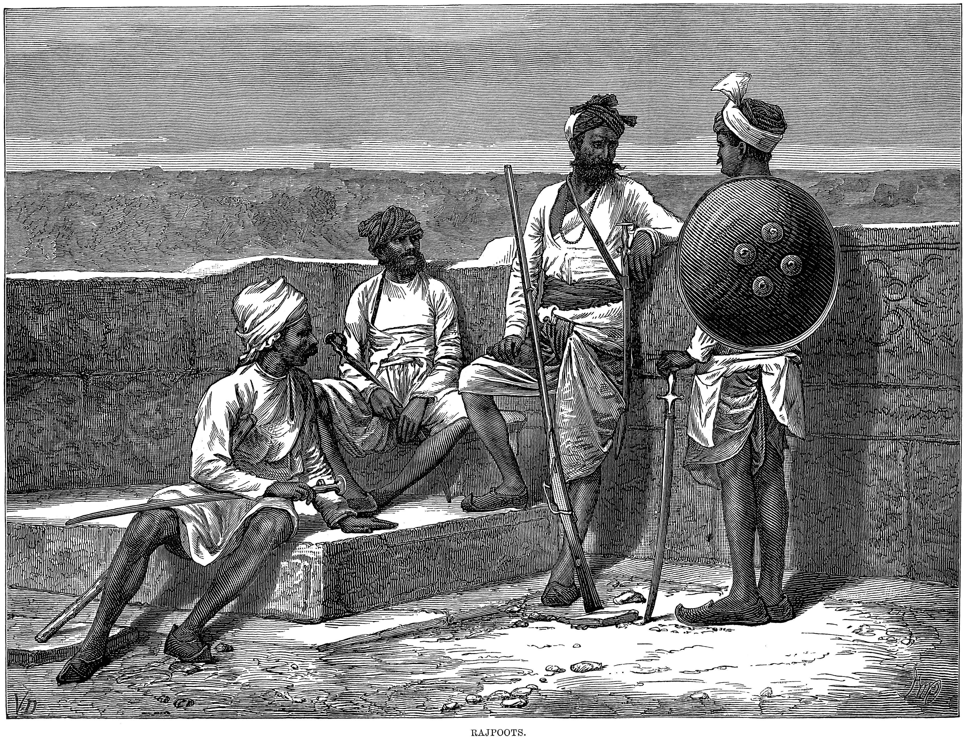 Rajpoots (modern spelling: Rajputs), from a series in the Illustrated London News celebrating the Royal Visit to India in early 1876.